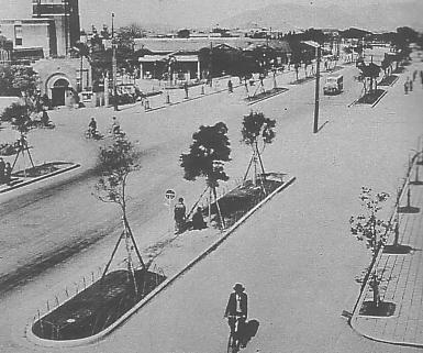 Chokushi Kaido(present-day "Chung Shan North Road")